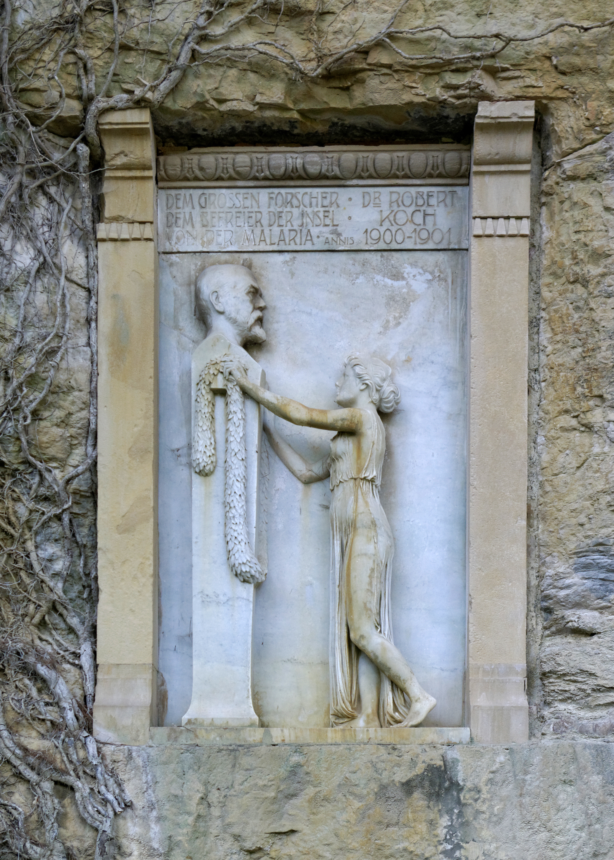 Croatia, Brijuni, Robert Koch monument